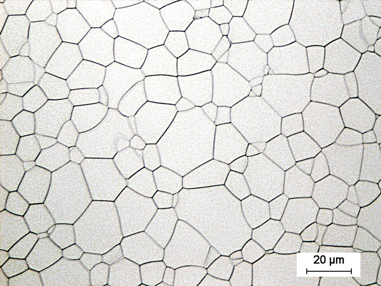 Transparent optical ceramic - Zoom x50 - CILAS